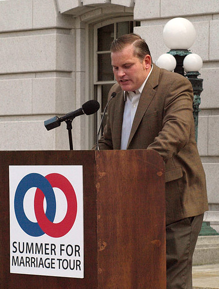 Cropped image of Brian S. Brown speaking